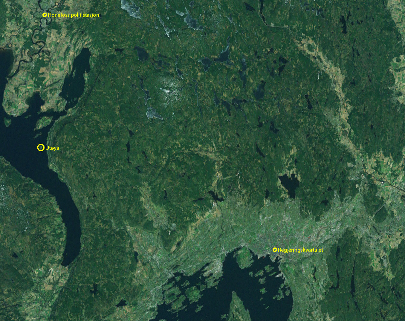 Satellite map of the Oslo area with pointers to Regjeringskvaralet in Oslo, Utøya and the police station in HønefossNorsk bokmål: Satellittbilde av Osloområdet med pekere til Regjeringskvartalet i Oslo, Utøya og Hønefoss politistasjon